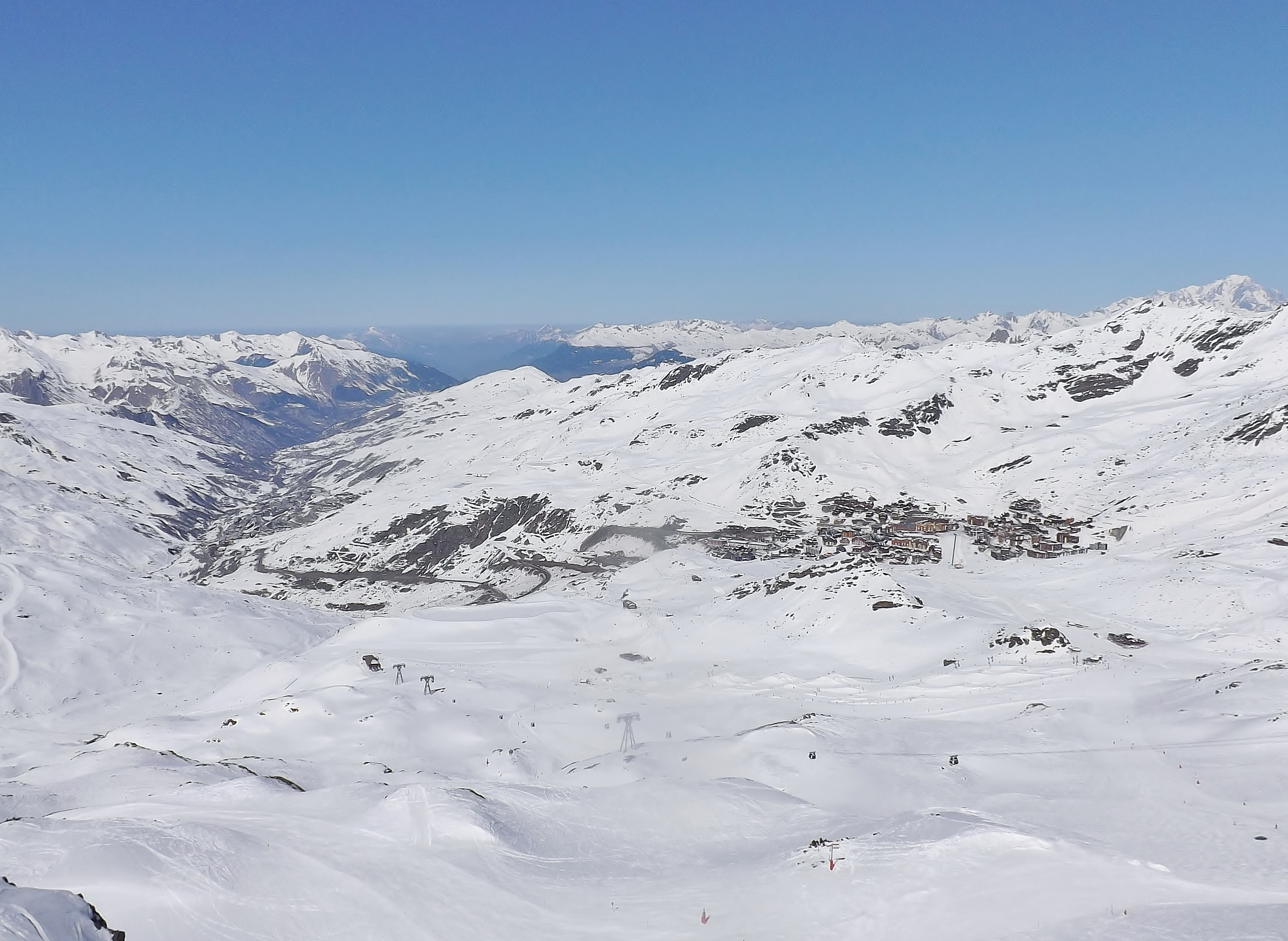 Sight of the vallée des Belleville valley, seen from the heights of Val Thorens ski resort, in Savoie, France.